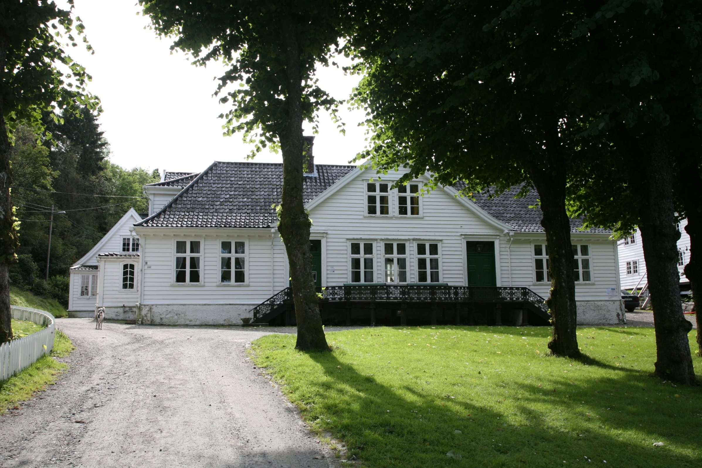 Alvøen Manor, Bergen, Norway.